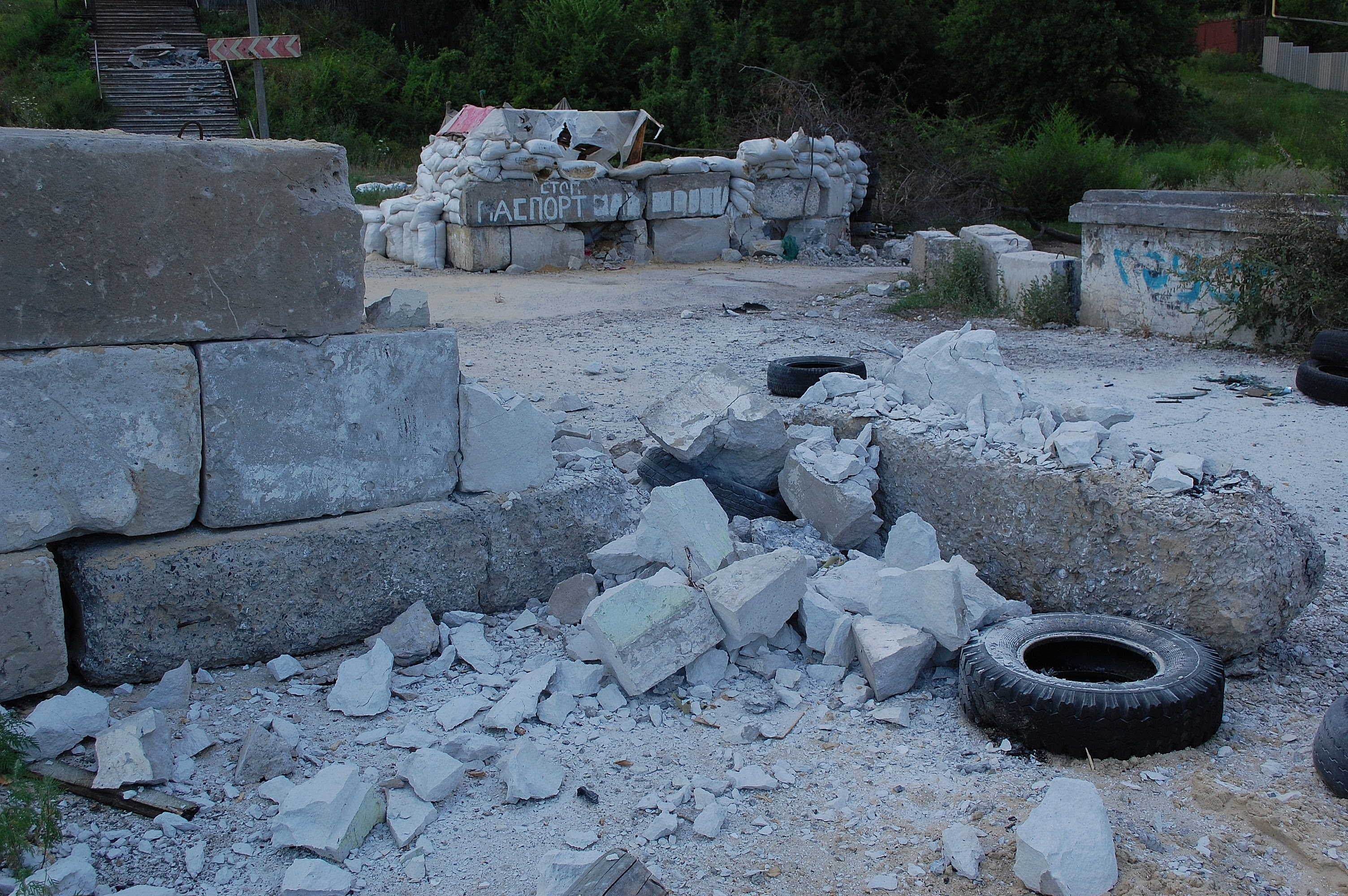 Lisichansk, damaged by the war in 2014